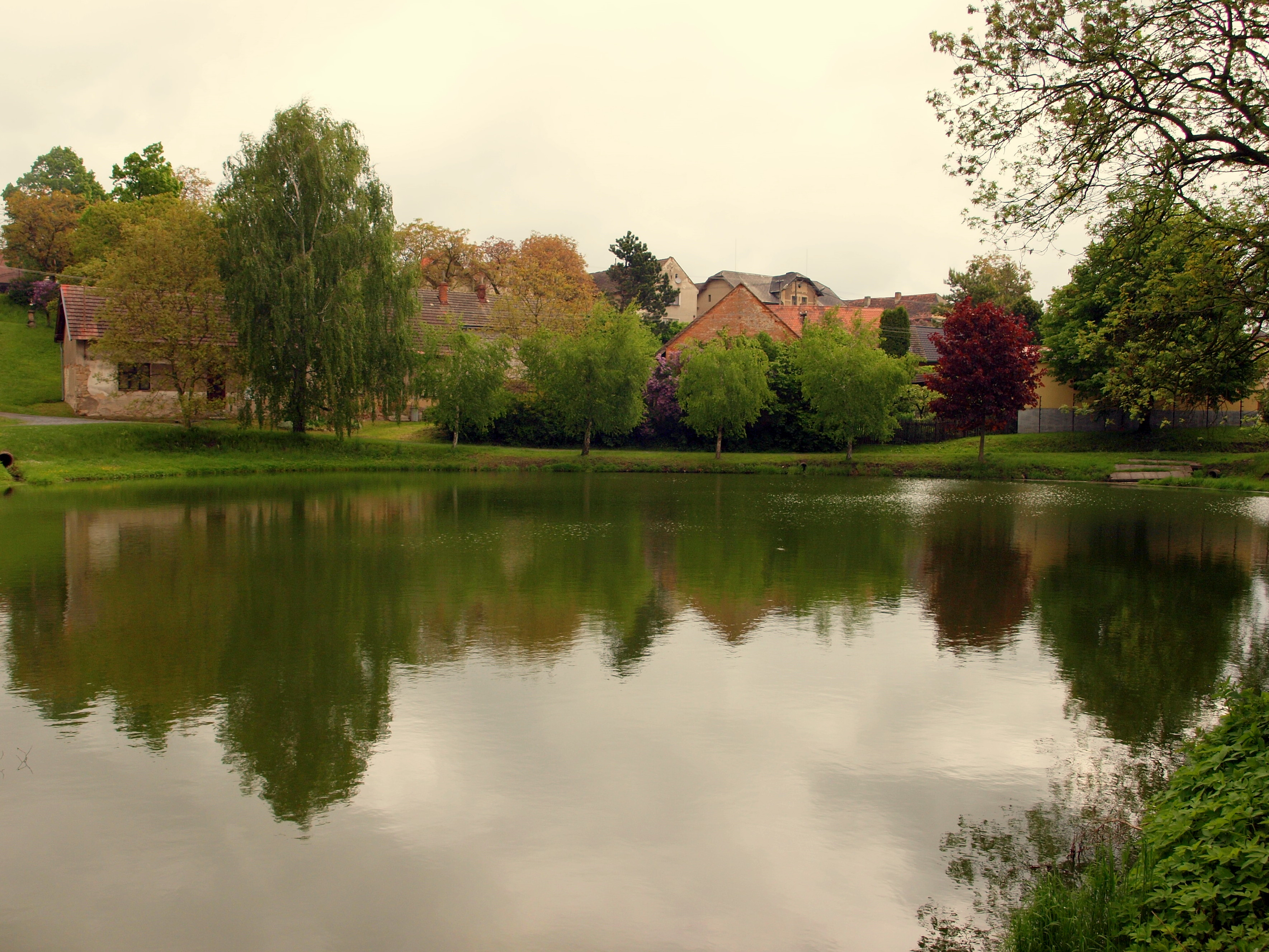 Strážnice, Czech republic